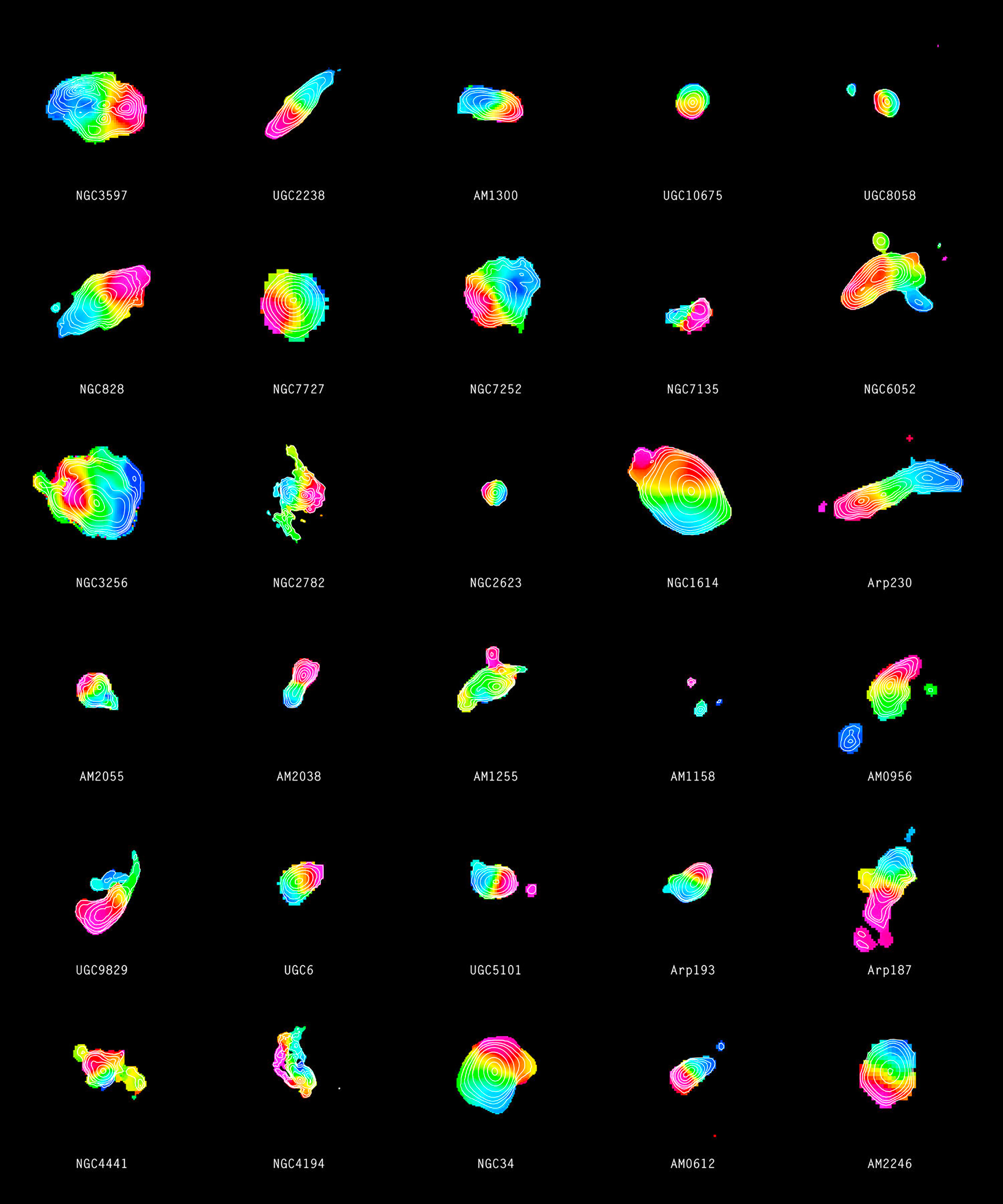 Each of the colourful objects in this image illustrates one of 30 merging galaxies. The contours in the individual galaxies show the signal strength from carbon monoxide while the colour represents the motion of gas. Gas that is moving away from us appears red while the blue colour shows gas that is approaching. The contours together with the transition from red to blue indicate a gaseous disc that is rotating about the centre of the galaxy.